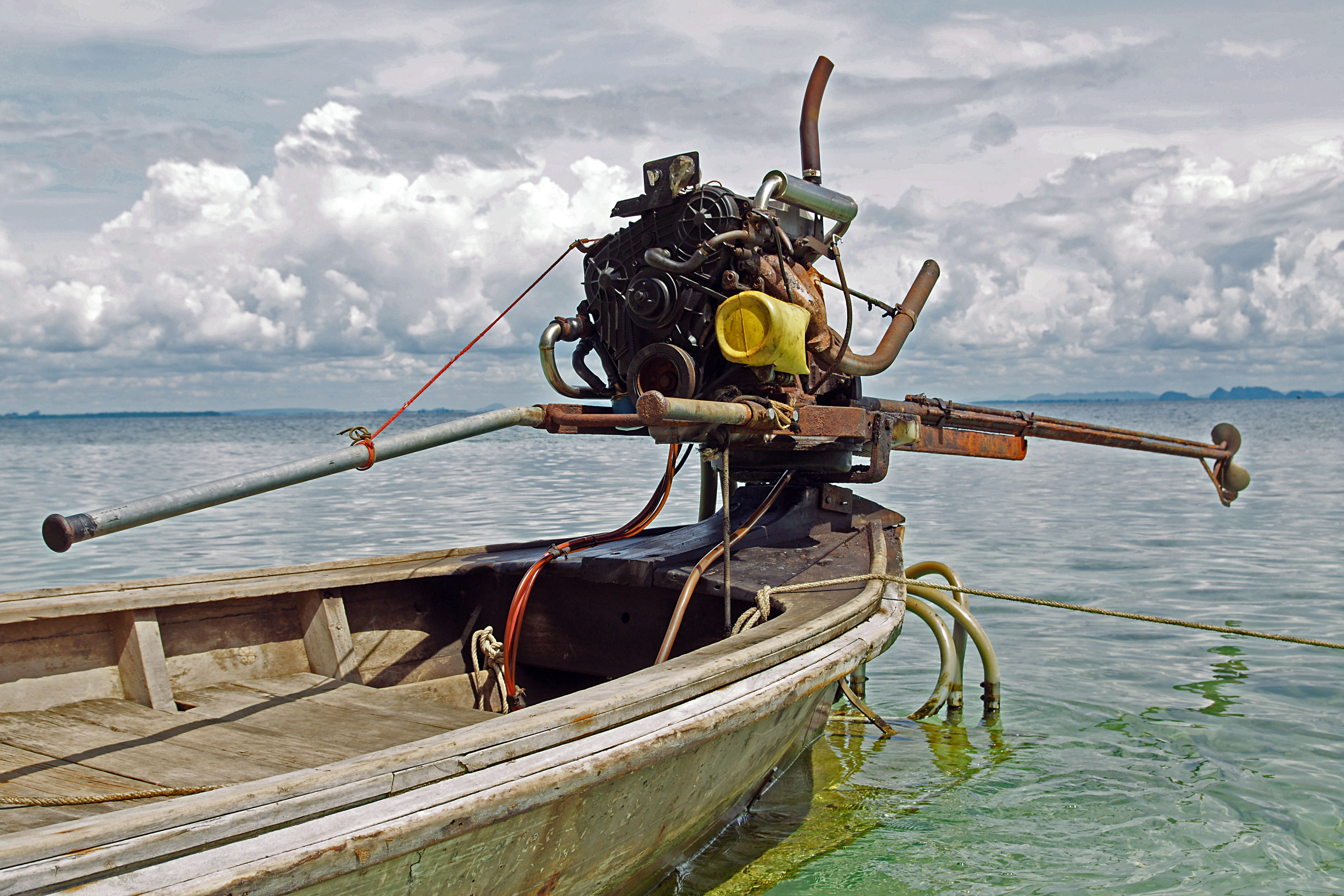 The engine of long-tail boat in Ko Kai, Krabi, Thailand.